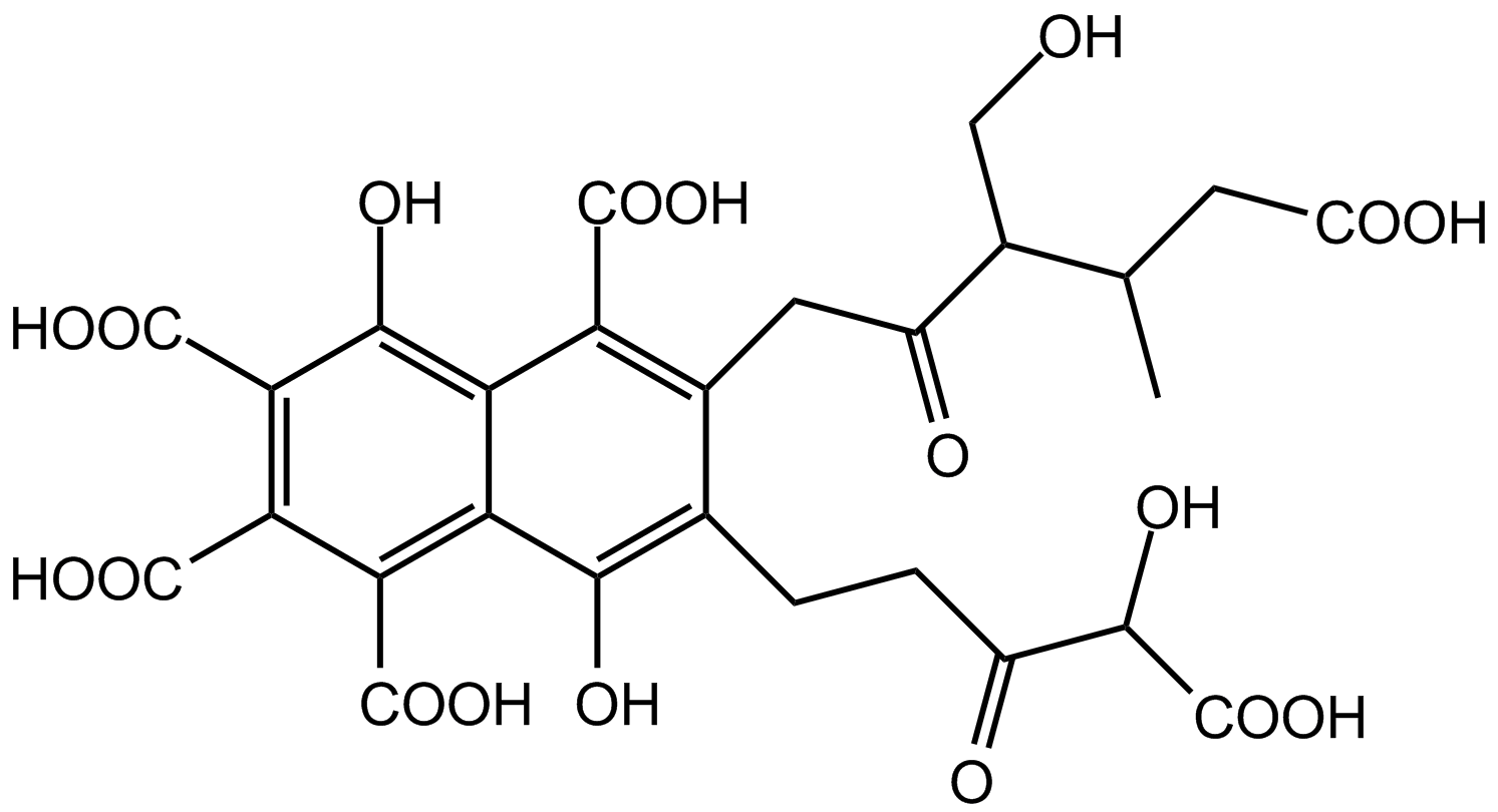 Structure of typical fulvic acid, (according to